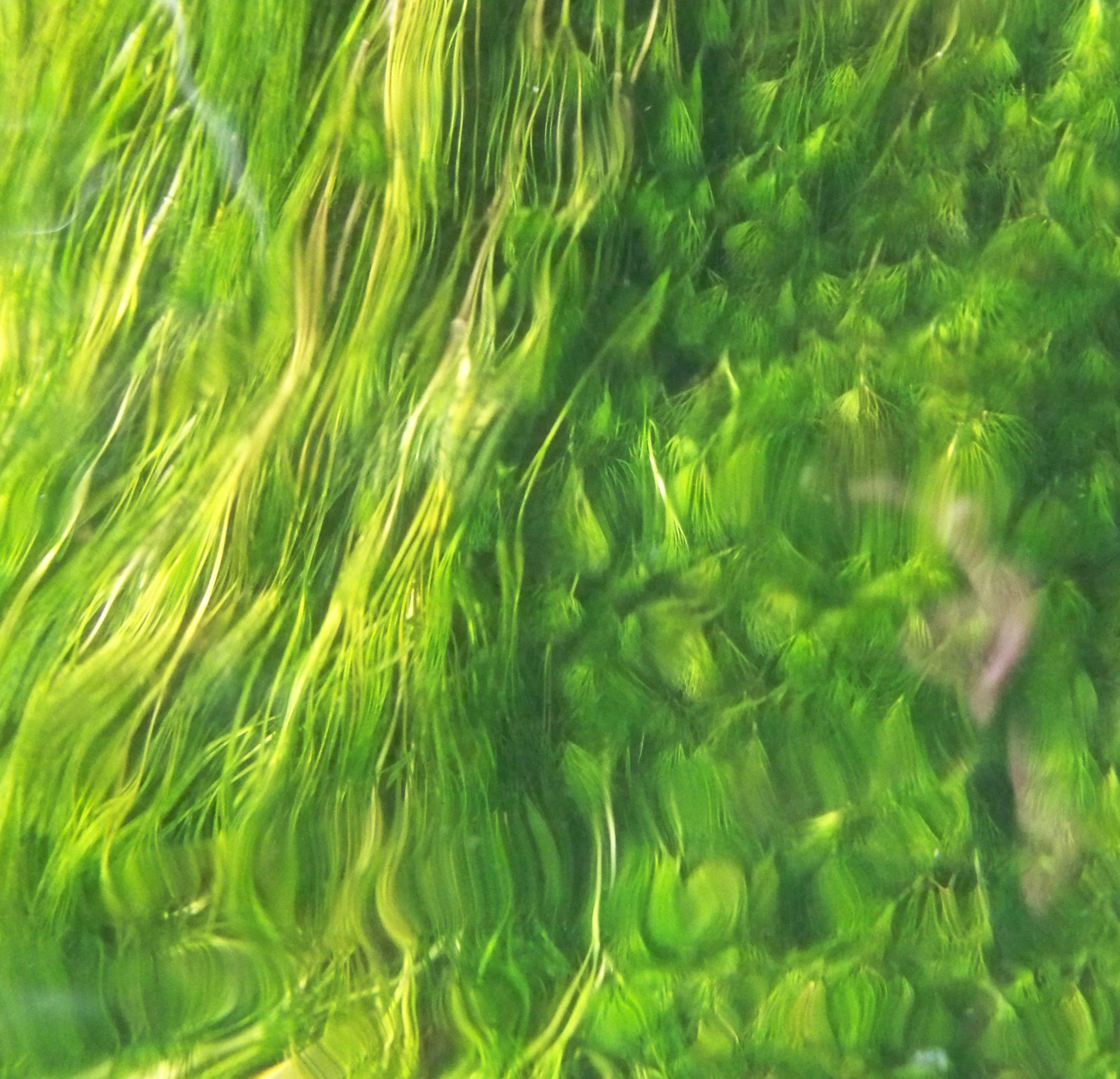 Ranunculus fluitans (left) and R. circinatus (right) in a Polish river